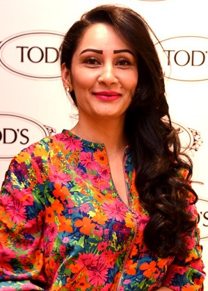 Manyata Dutt graces the launch of the Tod’s store.